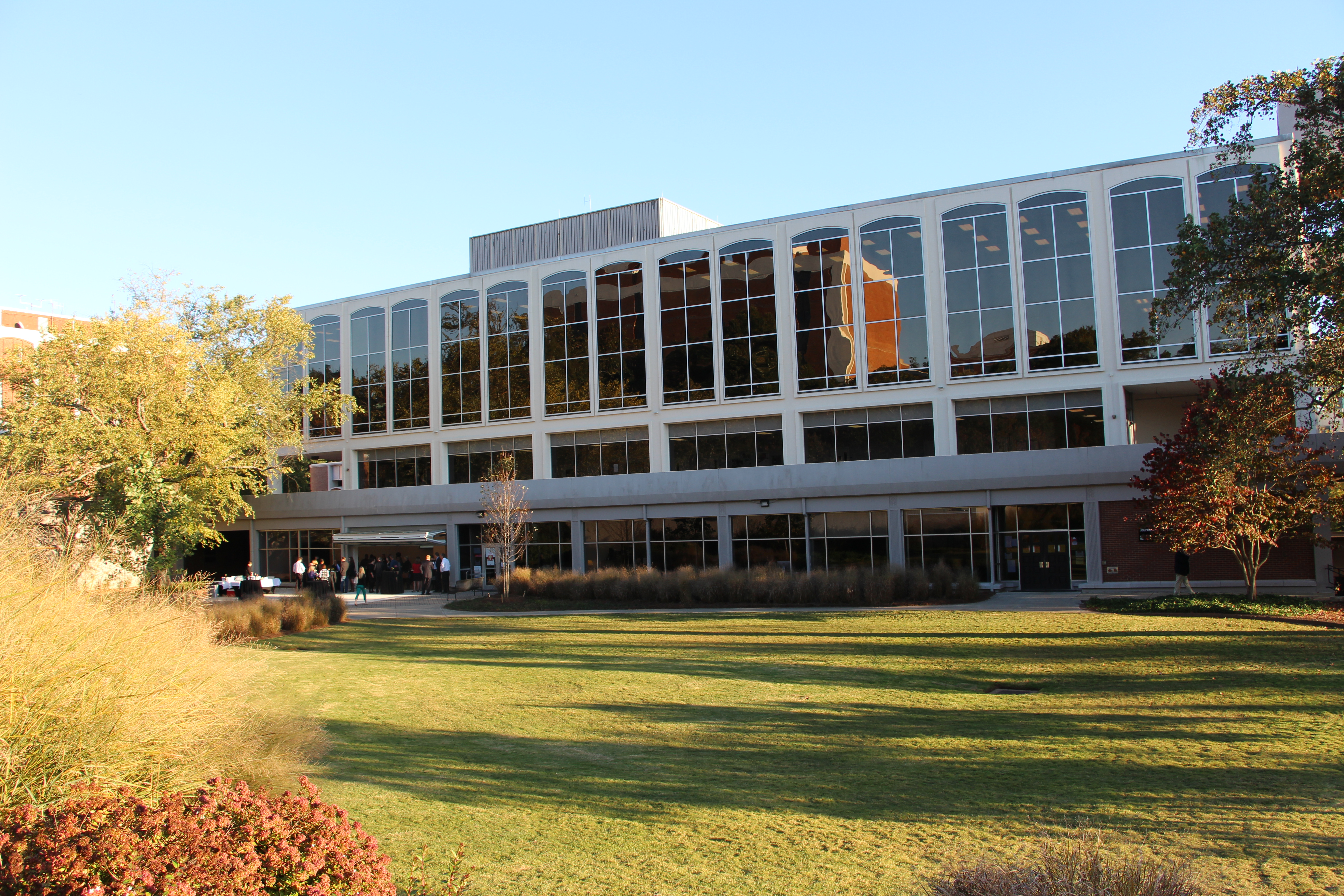 The front lawn of the Grady College of Journalism and Mass Communication in Athens, Georgia.